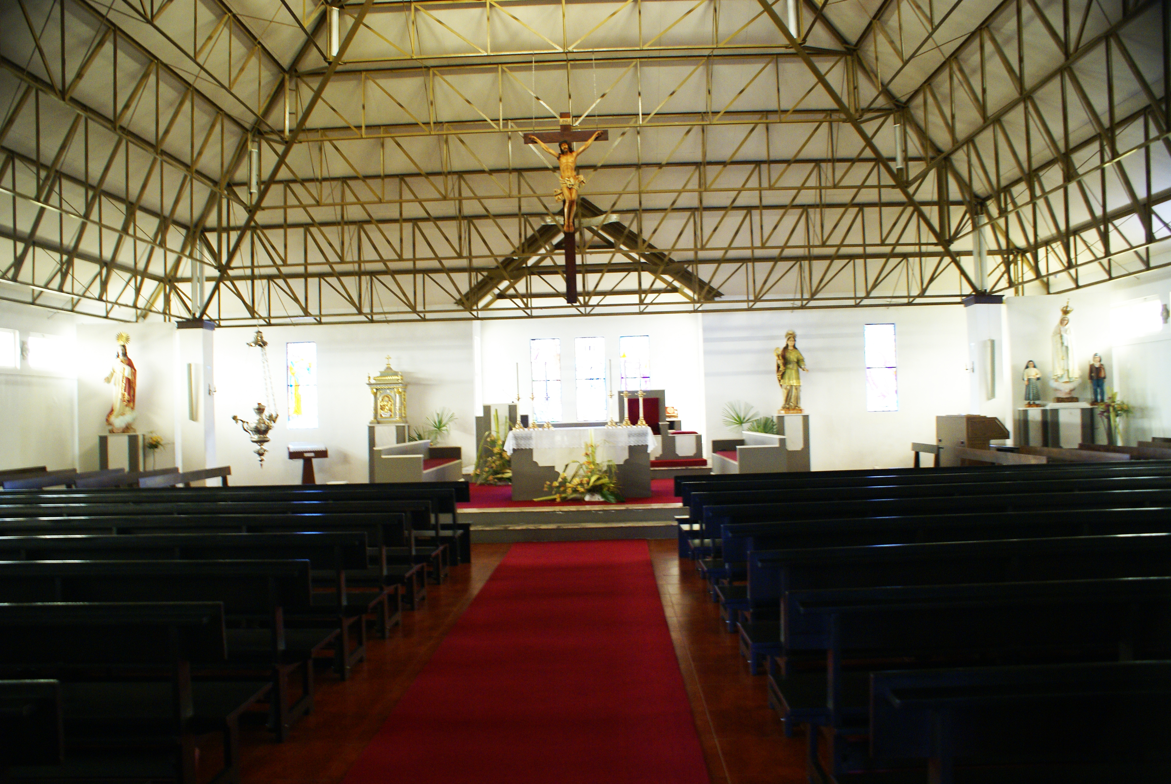 Modernist support structure within the central nave of the Church of Santa Bárbara, Cedros, Horta, Faial (Azores), Portugal